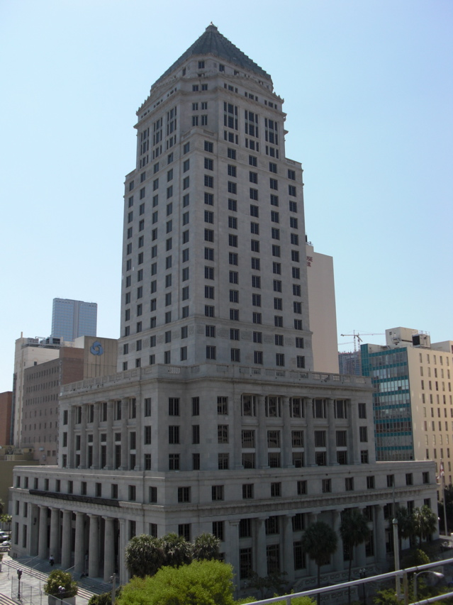 The Dade County Courthouse in downtown Miami